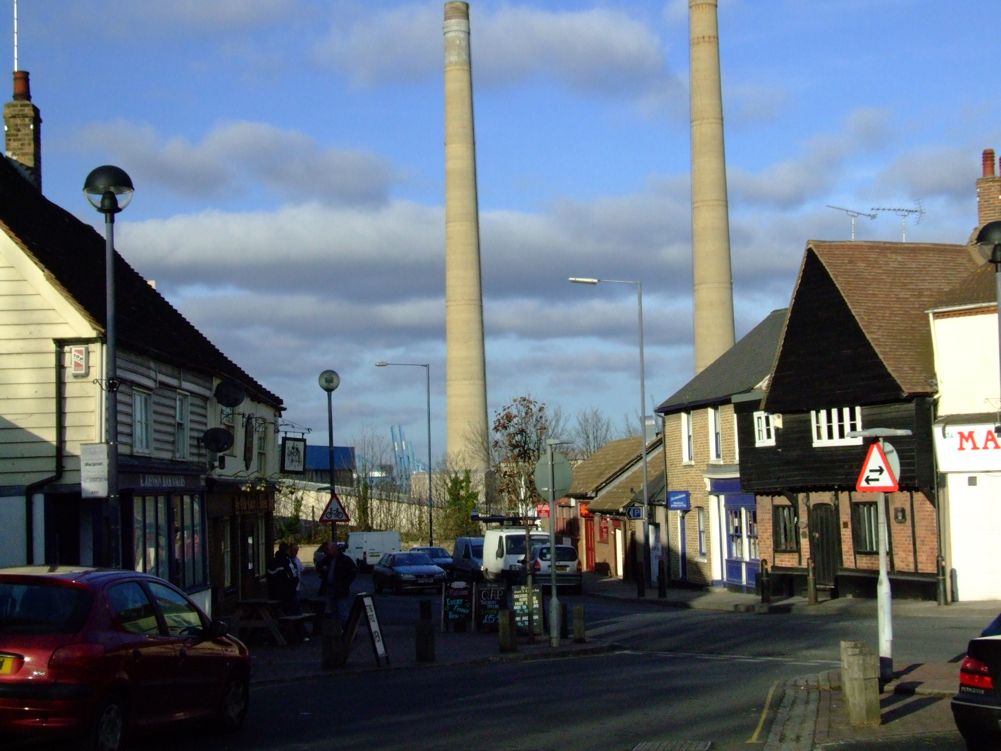 Northfleet merges with Gravesend in Kent. It is on the River Thames estuary. The shore has been excated for chalk, and heavy industry used the recovered land.. High Street - OpenStreetMap(Info)